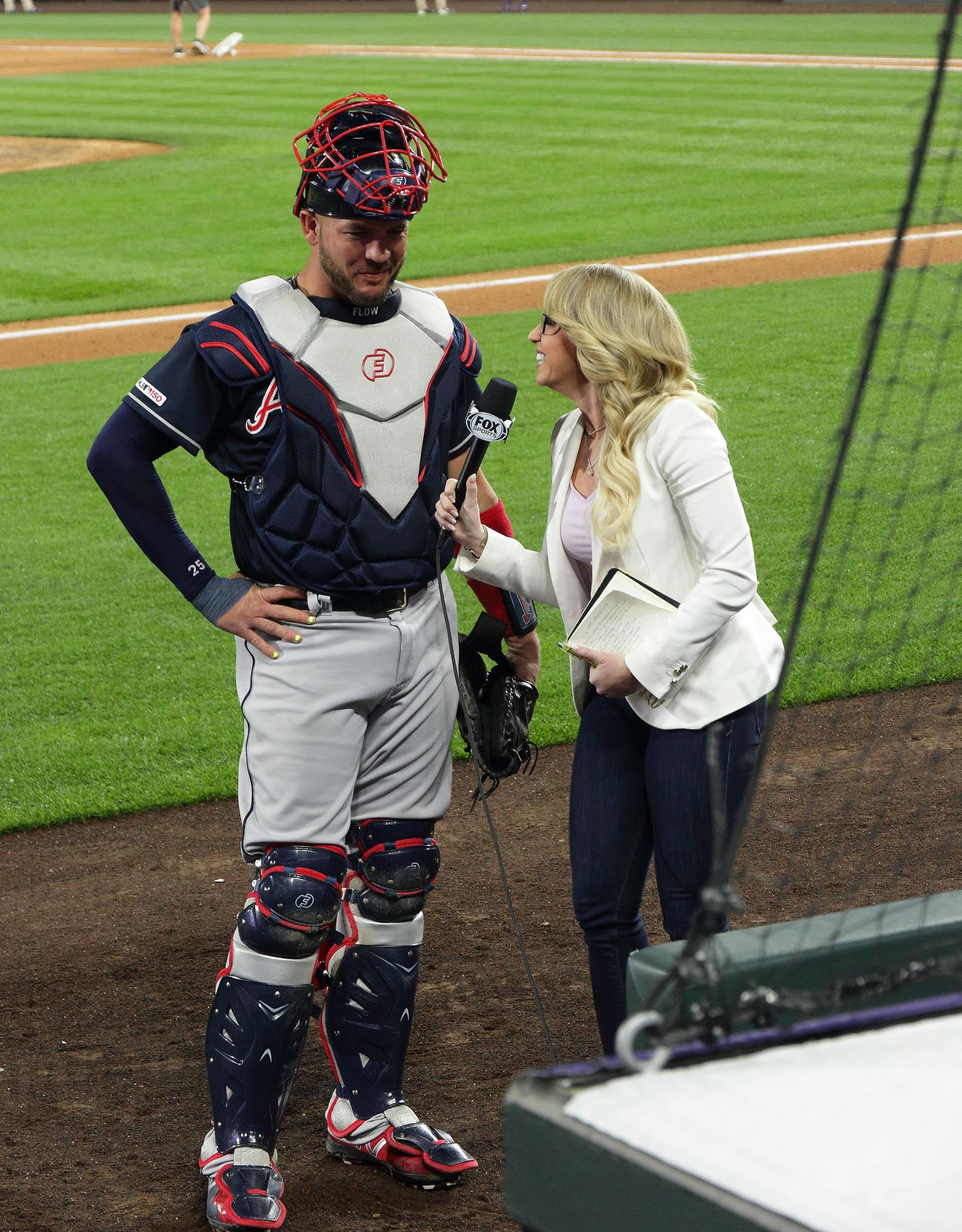 This photo was taken at Coors Field shortly after the completion of a game against the Rockies.